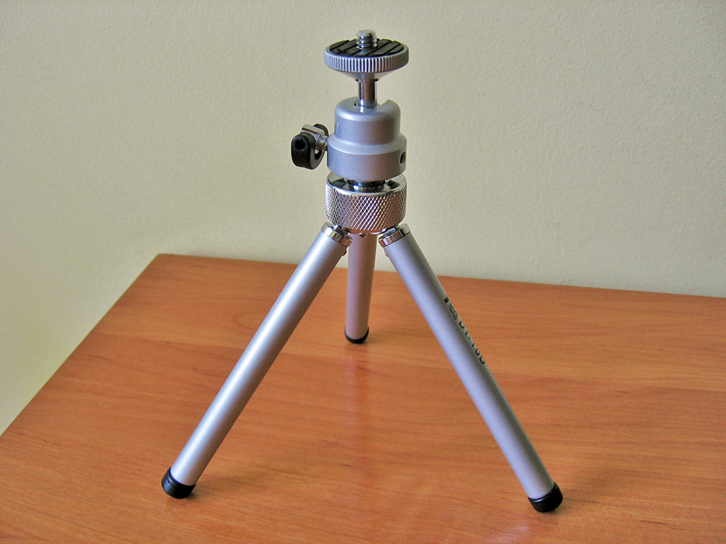 A tabletop (mini) tripod